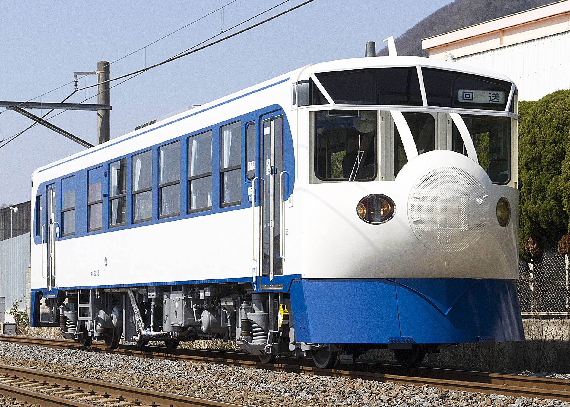 JR Shikoku Kiha 32 3 DMU for the Tetsudō Hobby Train